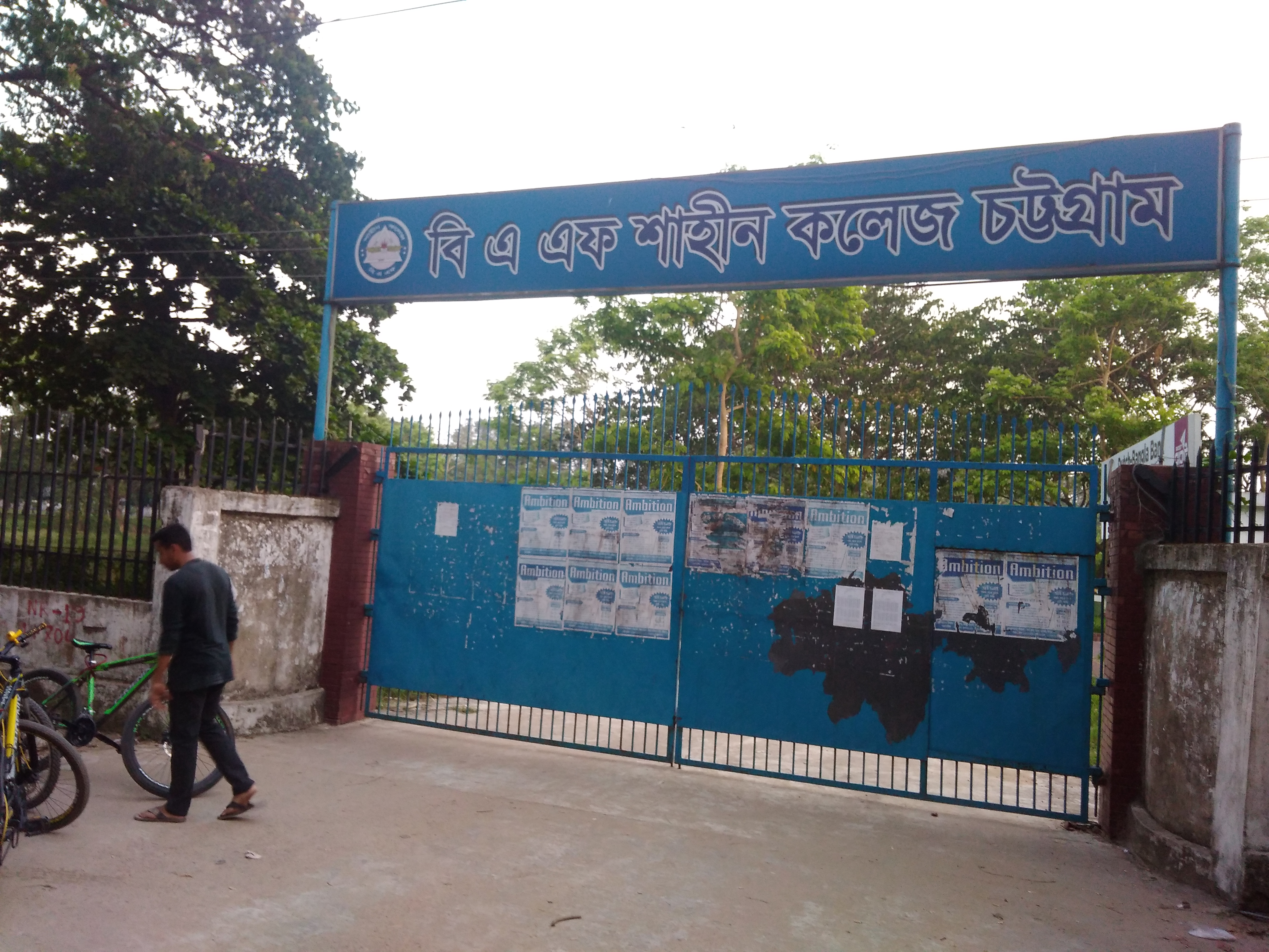 It is an image of a gate of BAF Shahin College which is situated at Chittagong.